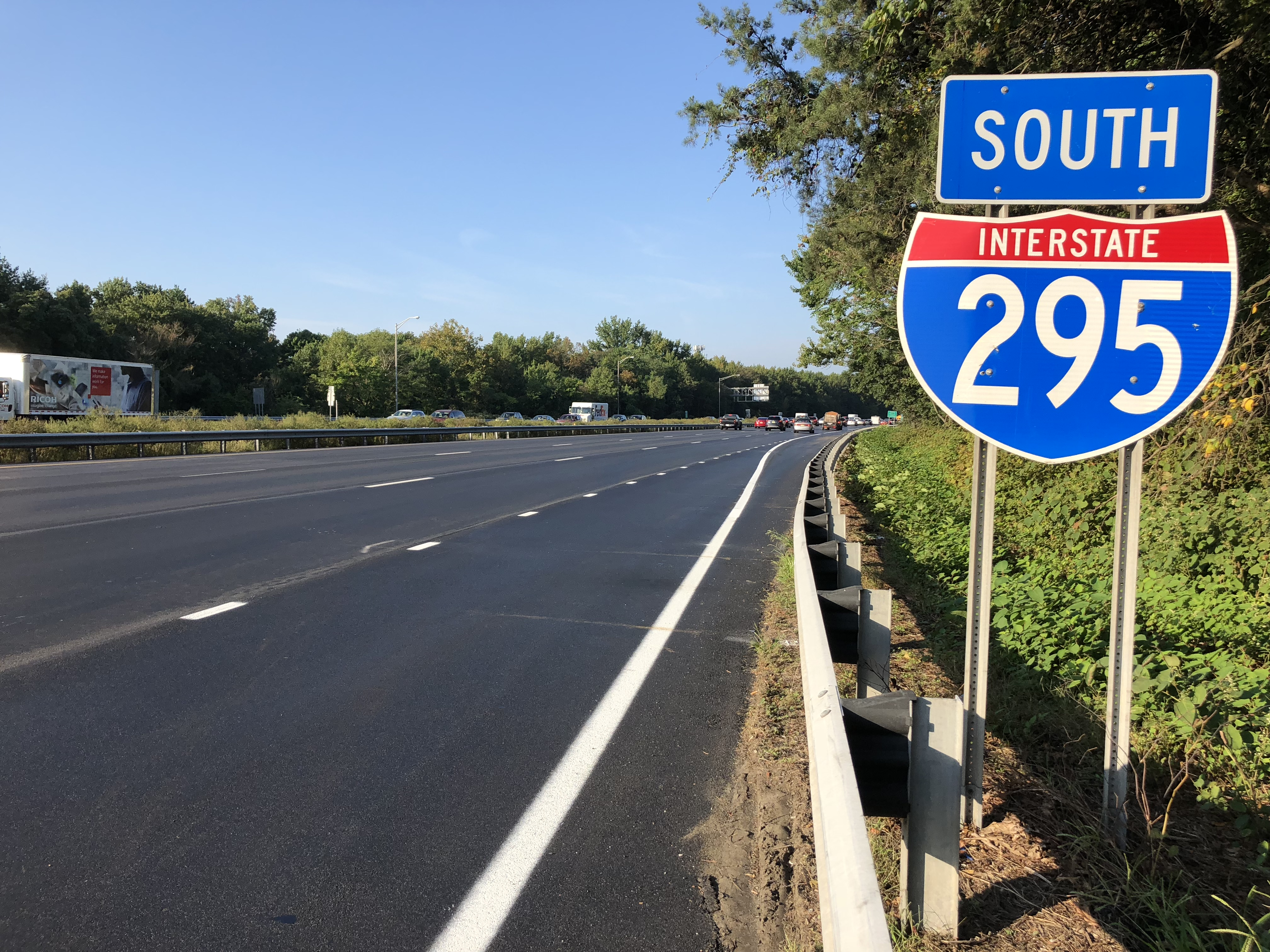 View south along Interstate 295 (Camden Freeway) just south of Exit 31 in Tavistock, Camden County, New Jersey